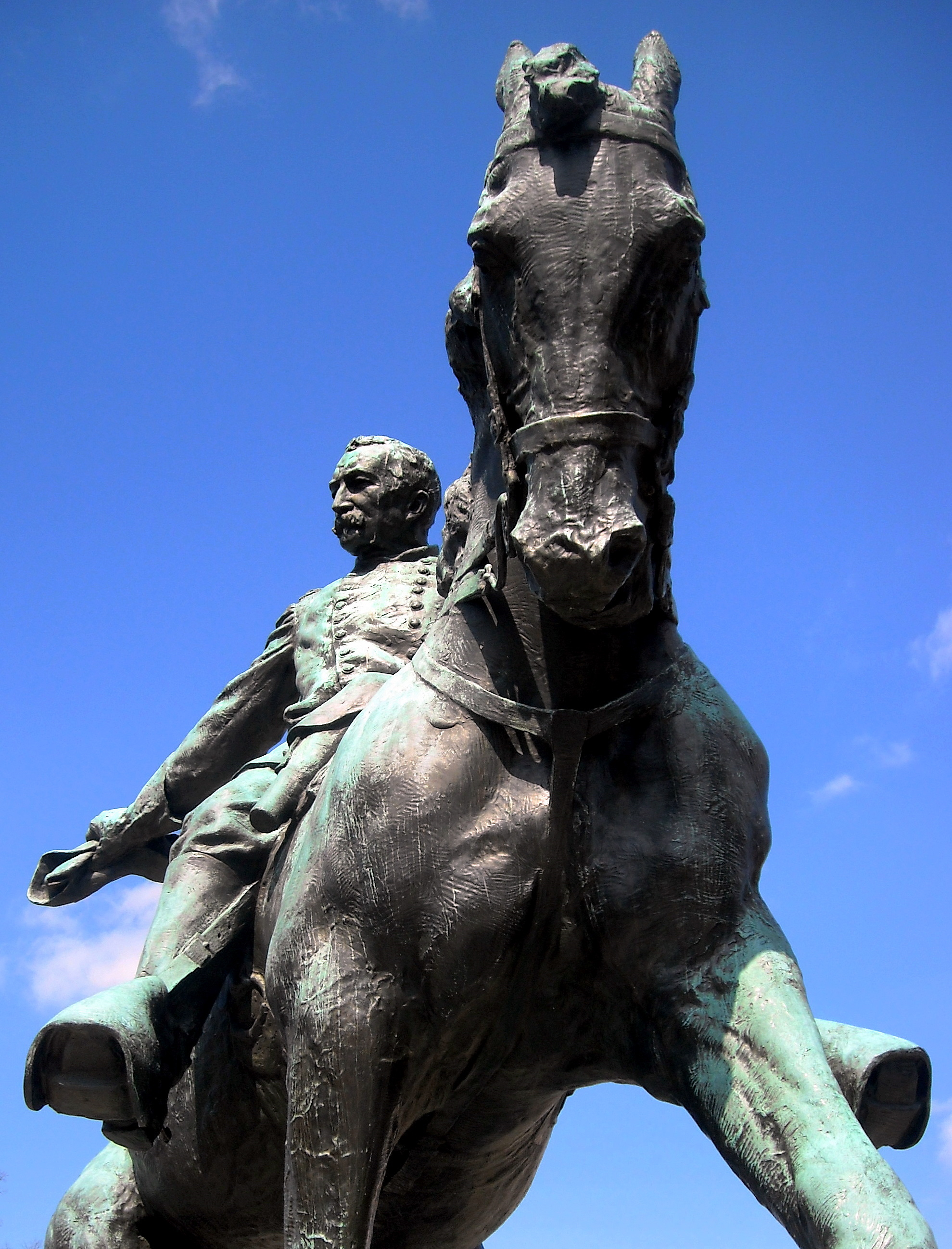 The memorial honoring General Philip Sheridan located in the center of Sheridan Circle in Washington, D.C. It was sculpted by Gutzon Borglum in 1908.